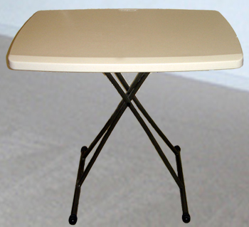 TV tray table or Personal Table made by Lifetime Products